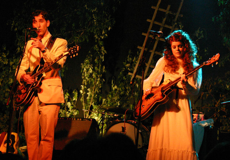 The alternative country group Blanche during an perfomance at St. Andrews Hall, Detroit, MI